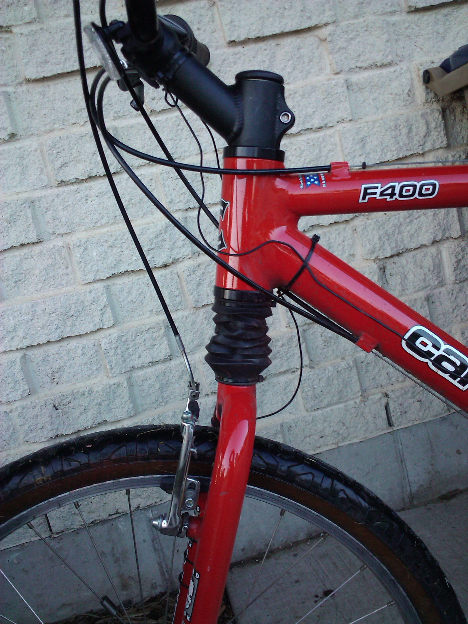 Cannondale Headshok suspension bicycle fork